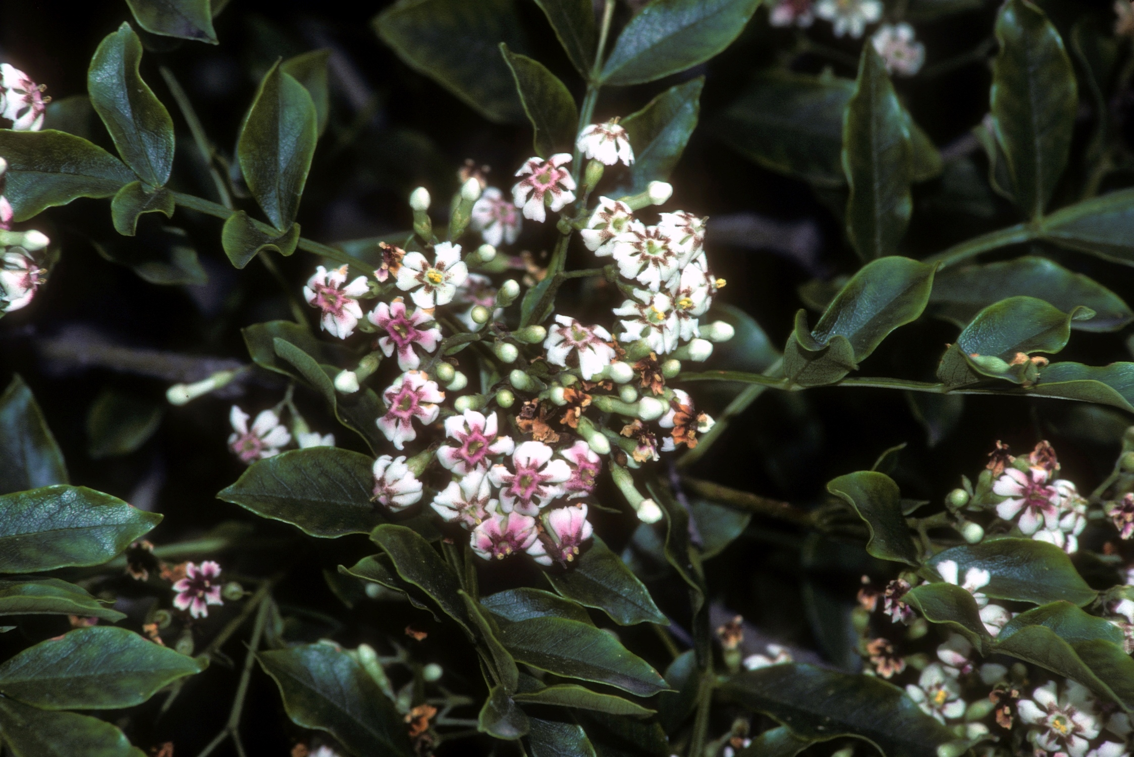 Schrebera alata. Huntington Botanic Garden, California. April 1986.